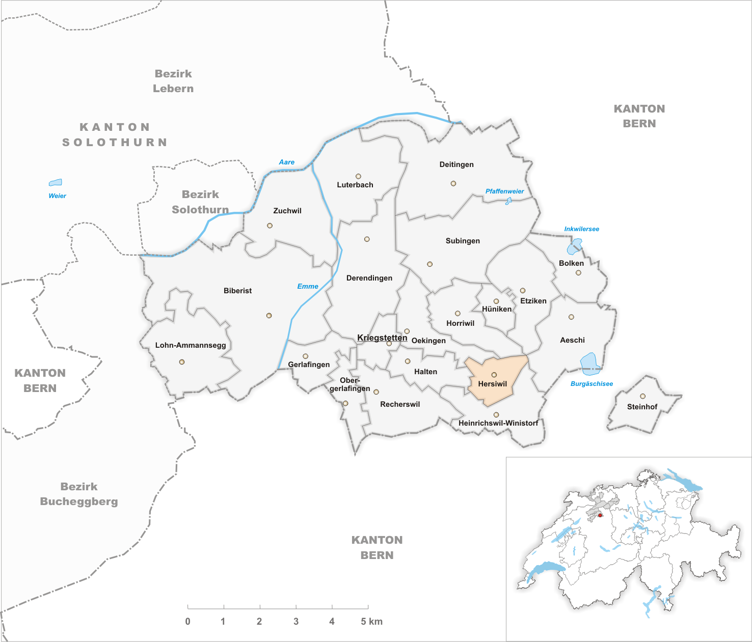 Municipality Hersiwil